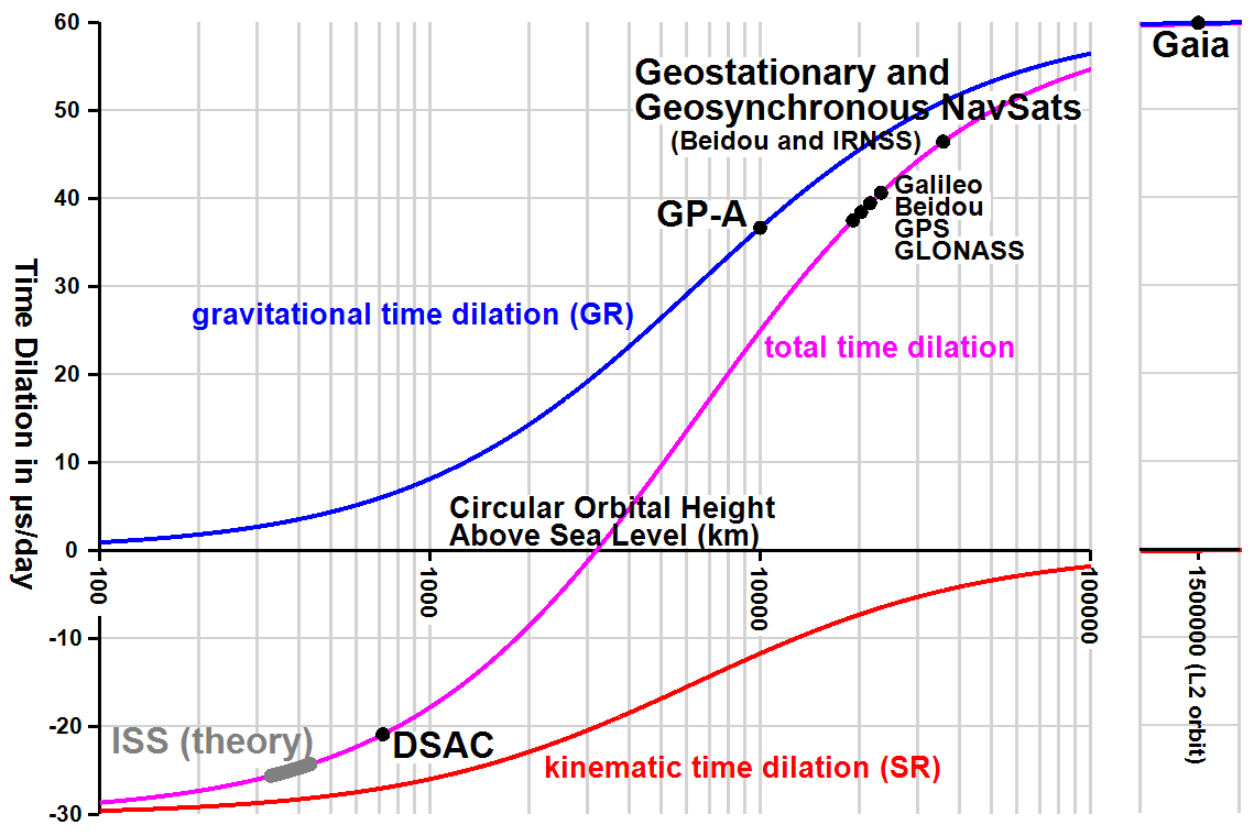 Depicts the time dilation as a function of orbital height relative to a stationary observer on earth. It is common to consider the total dilation as being due to two distinct effects: Kinematic time dilation (customarily referred to as the Special Relativity effect) accounts for slowed time in orbit (relative to the observer on earth) depending on the orbital velocity associated to a specific orbital height. Gravitational time dilation (customarily referred to as the General Relativity effect) accounts for accelerated time (relative to the observer on earth) due to the distance to the earths gravitational center. Although these sources of time dilation are regularly referred to as "SR time dilation" and "GR time dilation", this usage is incorrect, because general relativity accounts for both effects. The point for "GPS" has been firmly confirmed by decades of measurement, both by satellites of the the U.S. Global Positioning System, as well by the satellites of the Russian GLONASS and European Galileo systems in similar orbits. Geosynchronous time dilation has been firmly confirmed by the Chinese Beidou and the Indian Regional Satellite Systems, which use geostationary satellites to improve accuracy above their respective countries. Also included is the measurement at peak altitude of the 1976 Gravity Probe A experiment, which measured time dilation effects throughout most of its nearly vertical trajectory. Time dilation for the ISS (which has orbited at various altitudes, hence the elongated mark) has not yet been confirmed by actual measurement, but this should change with the launching of the Atomic Clock Ensemble in Space mission in 2020.